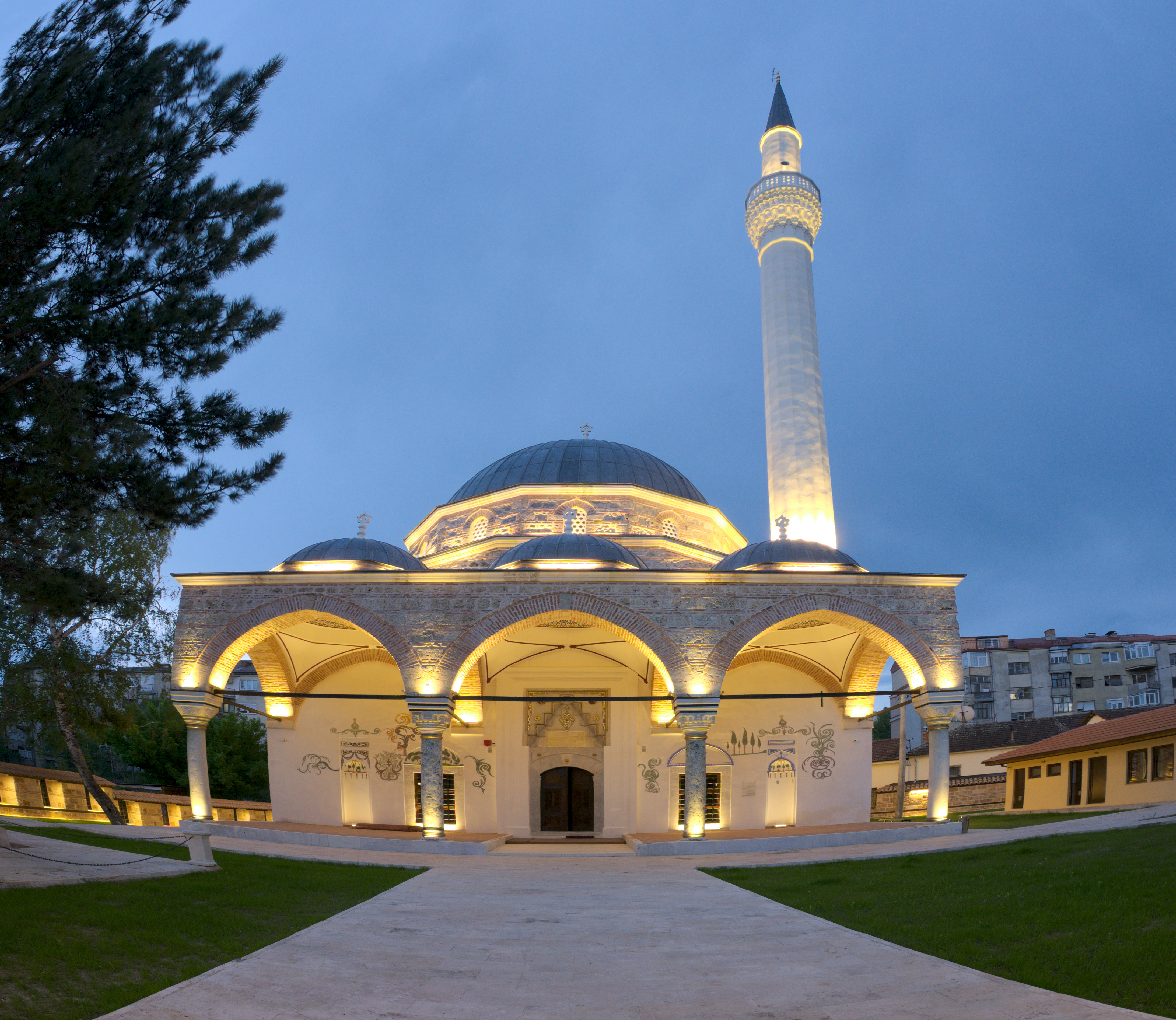 Hajdar Kadi Mosque (Bitola), Macedonia. Српски (ћирилица): Ајдар кади џамија, Битољ. Обновљена 2016. године од стране турске Владе. This photograph was taken with a Panasonic Lumix DMC-G85/G80.